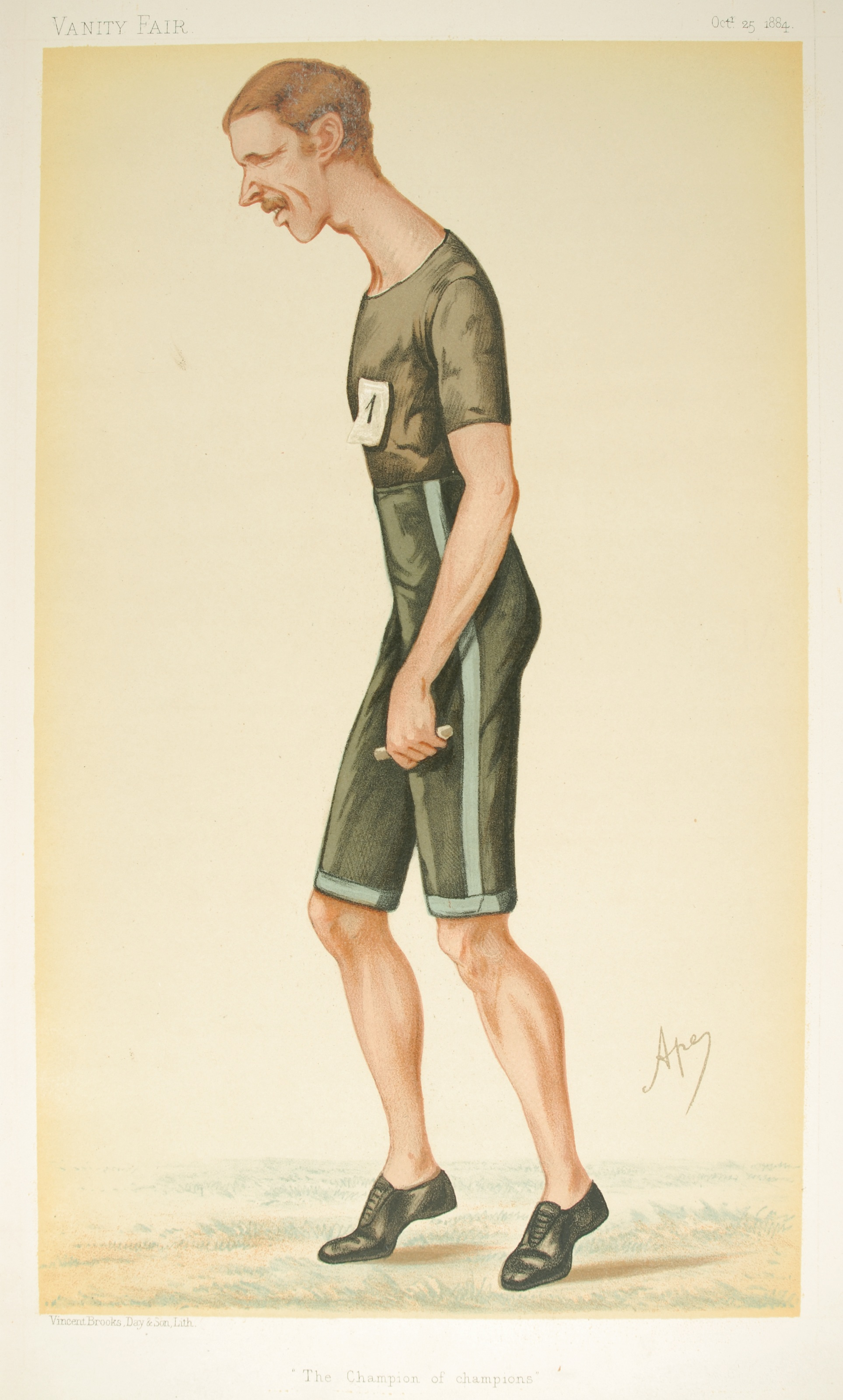 Men of the Day No.315: Caricature of Mr Walter Goodall George. Caption reads: "The Champion of champions"